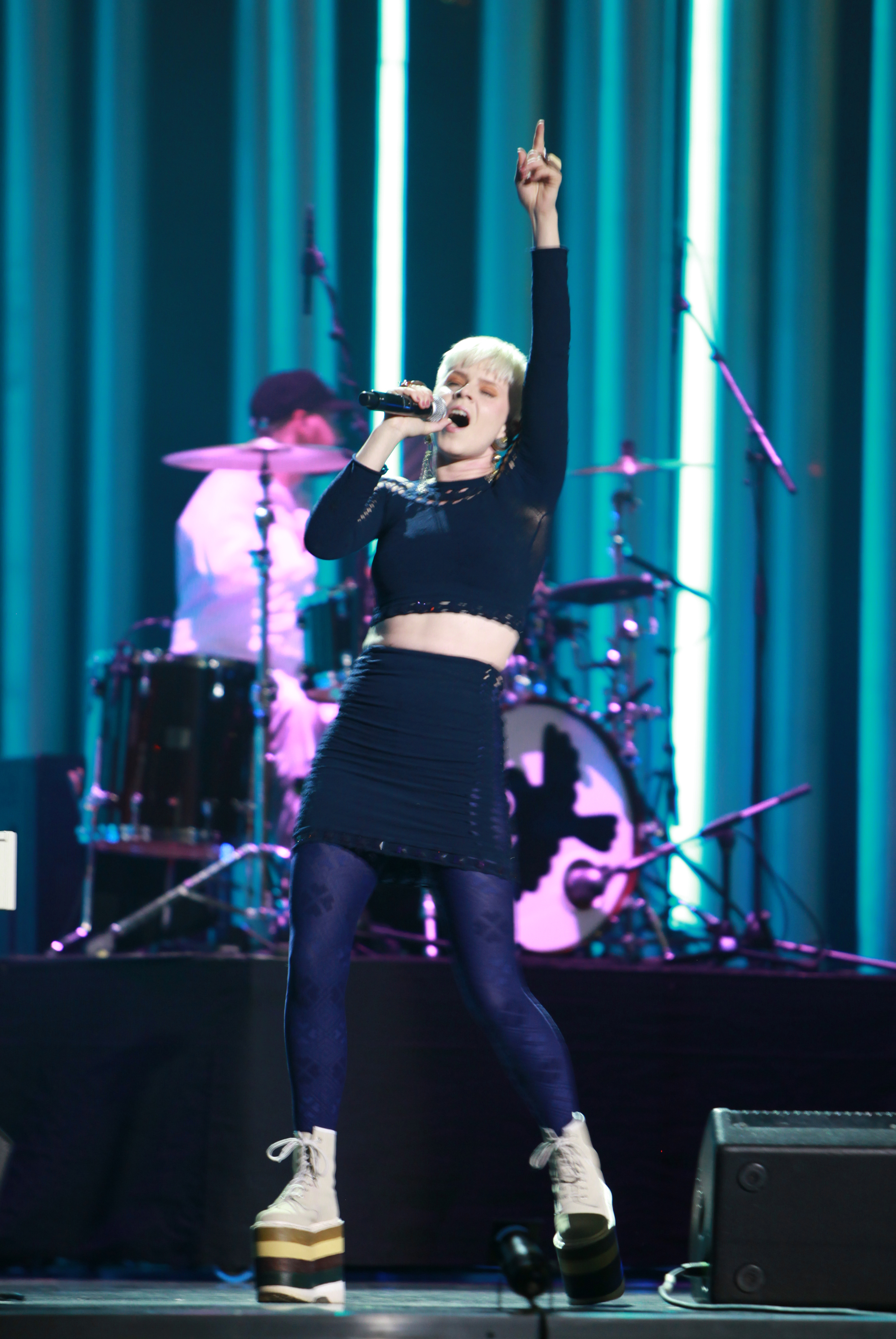 Robyn at The Nobel Peace Price Concert 2010